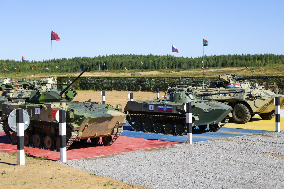 Airborne Platoon 2018. ZBD-03, BMD-2, BTR-82A.